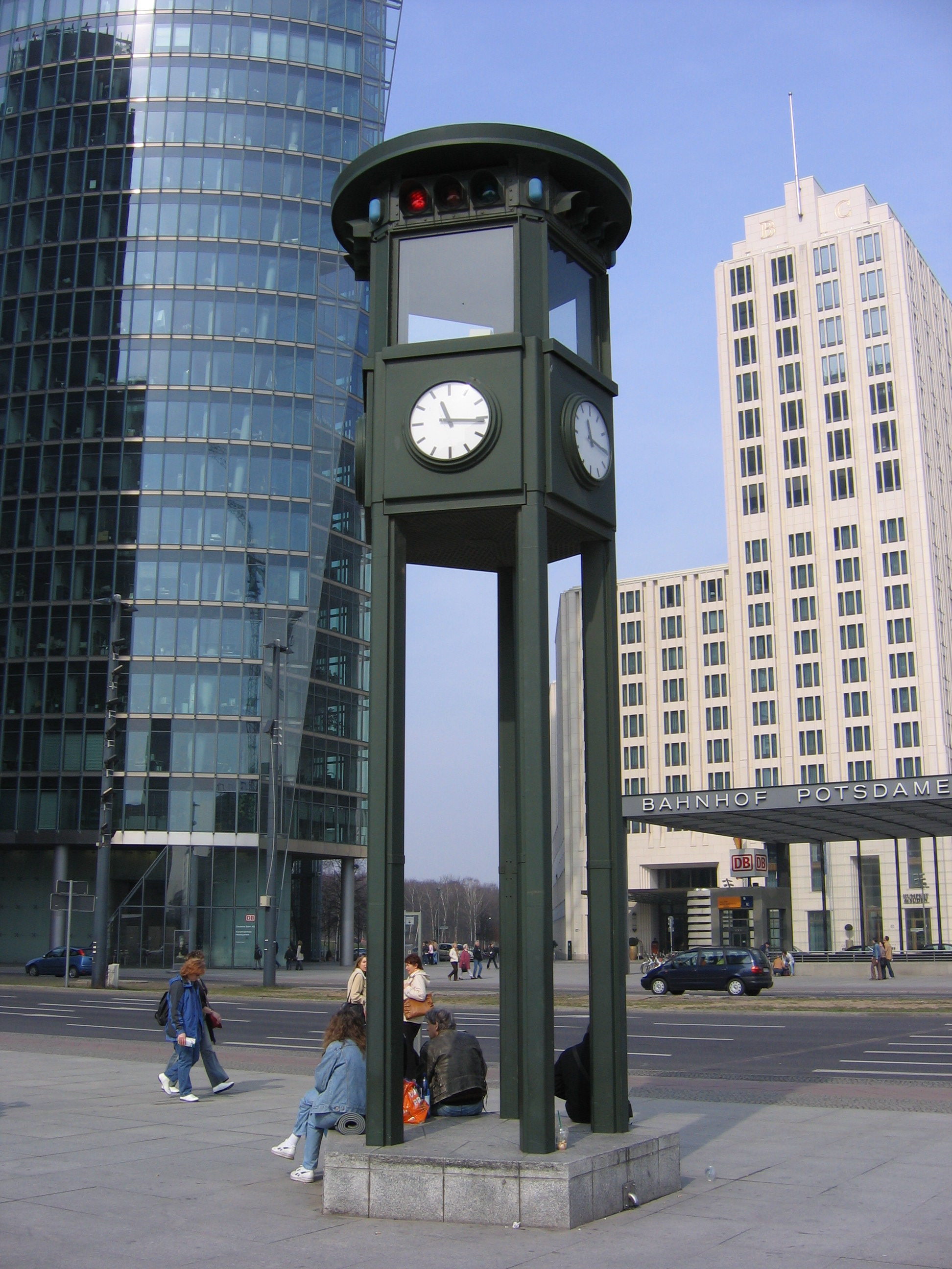 Potsdamer Platz Replica of the traffic tower of 1924